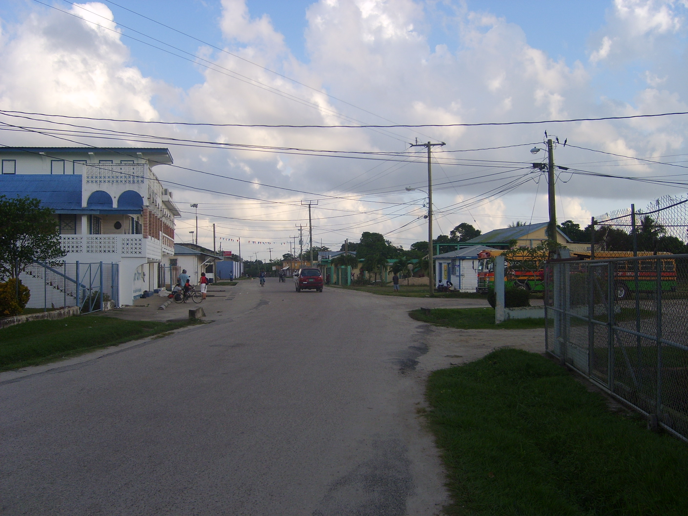 A view of Independence Village in Stann Creek District of Belize. This village serves as a convenient point of entry to Placencia from the South of Belize (via ferry).